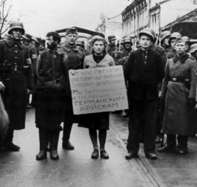 Masha Bruskina and two men were marched through Minsk, Russia by German troops on October 26, 1941 prior to their public executions. Bruskina carries a sign that reads in German and Russian "We are partisans and have shot at German soldiers".